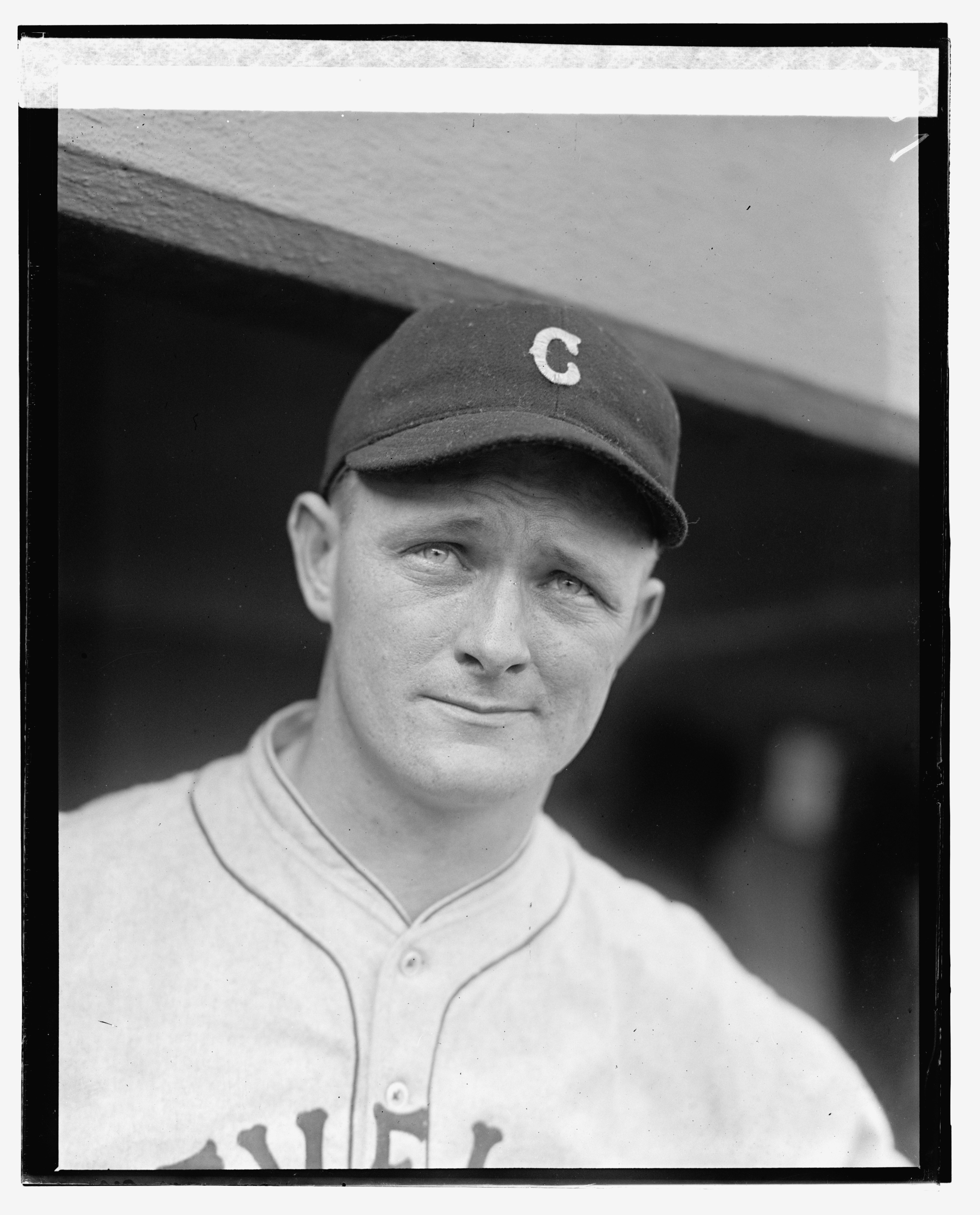 Title: Lindsey, Cleveland, 1924 Abstract/medium: National Photo Company Collection (Library of Congress) Physical description: 1 negative